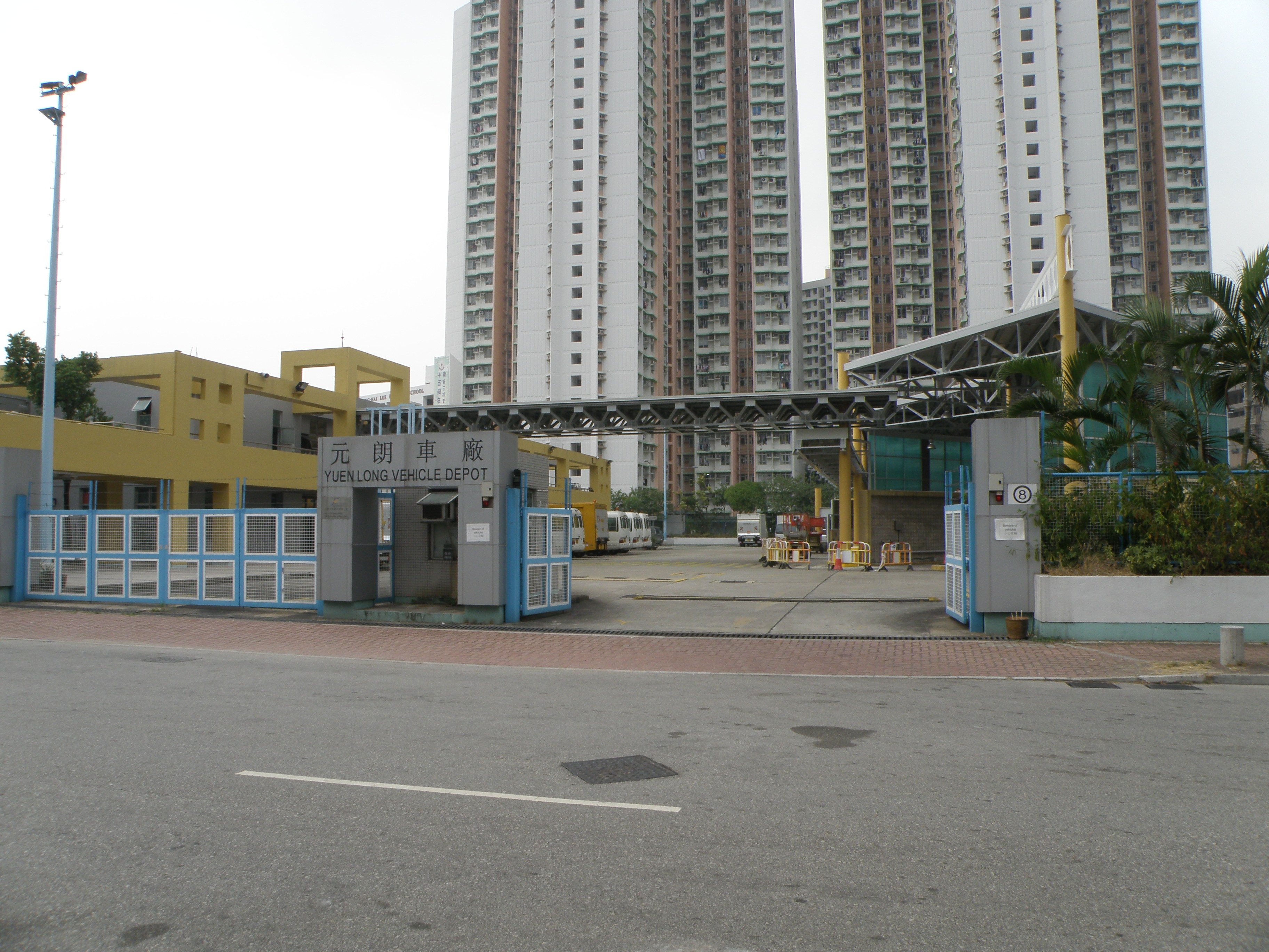 Food and Environmental Hygiene Department Yuen Long Vehicle Depot, Hong Kong.